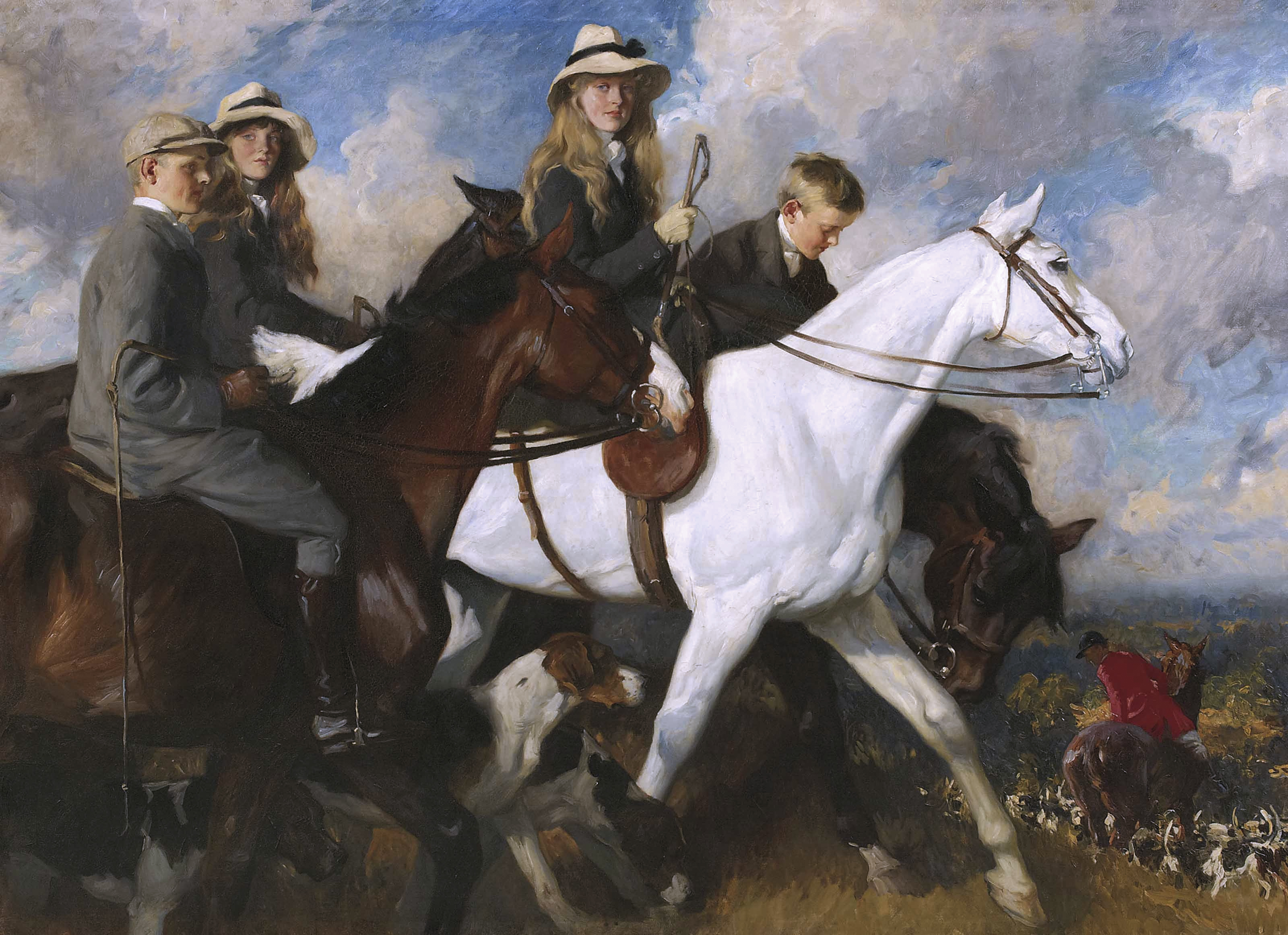 With the York and Ainsty - The Children of Mr Edward Lycett Green, M.F.H. oil on canvas 208.9 x 287.8 cm 1905